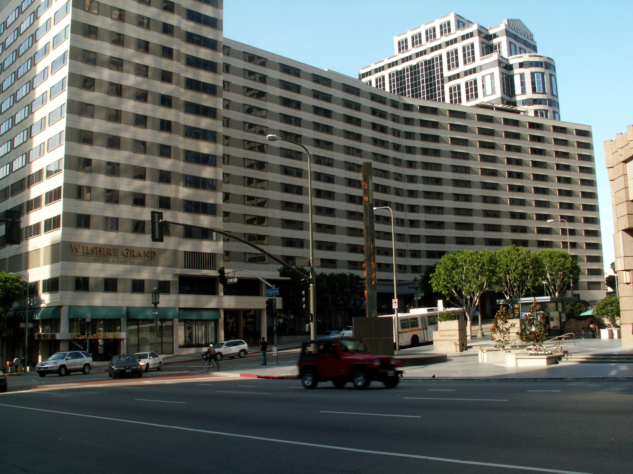 Photo of the north facade of the former Wilshire Grand Hotel (the Statler Hilton hotel 1954-1968) — on Wilshire Boulevard at Figueroa, in Downtown Los Angeles (2006). Taken from S. Figueroa St., north of Wilshire Blvd. Demolished in 2013 for new Wilshire Grand skyscraper construction.